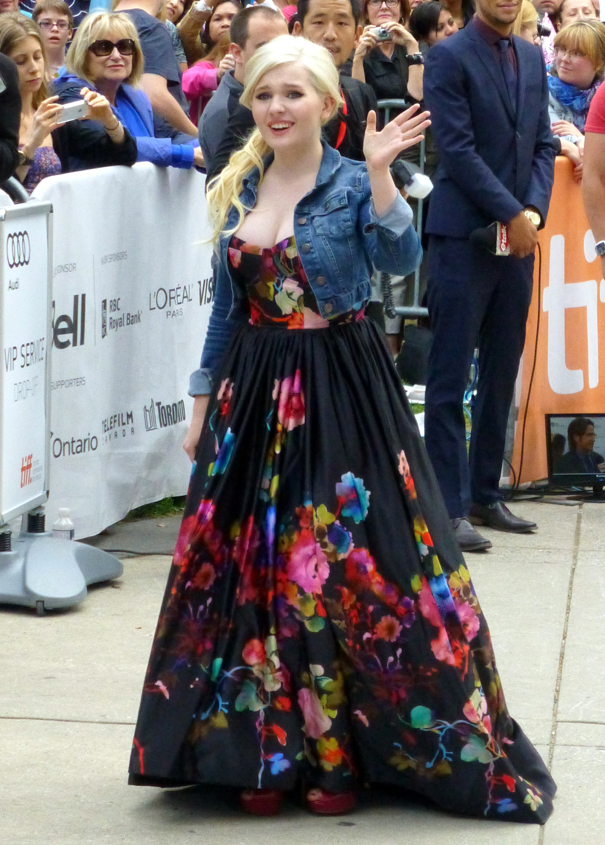 Abigail Breslin at the premiere of August: Osage County, Toronto Film Festival 2013